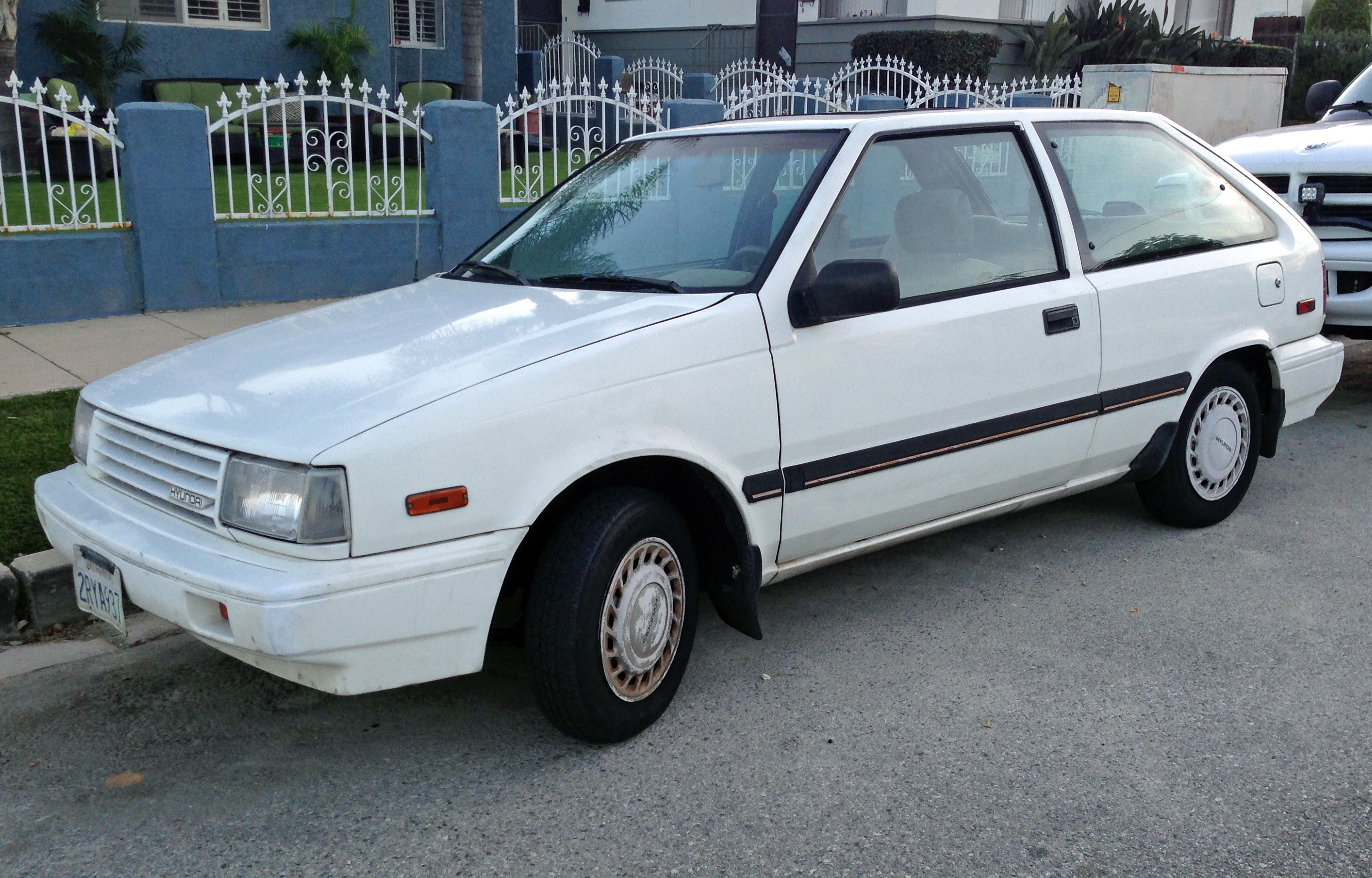 A 1989 Hyundai Excel GL three-door hatchback. Still going strong, last passed emissions in October 2016. Probably the only first-gen Excel I've seen in the last ten years.